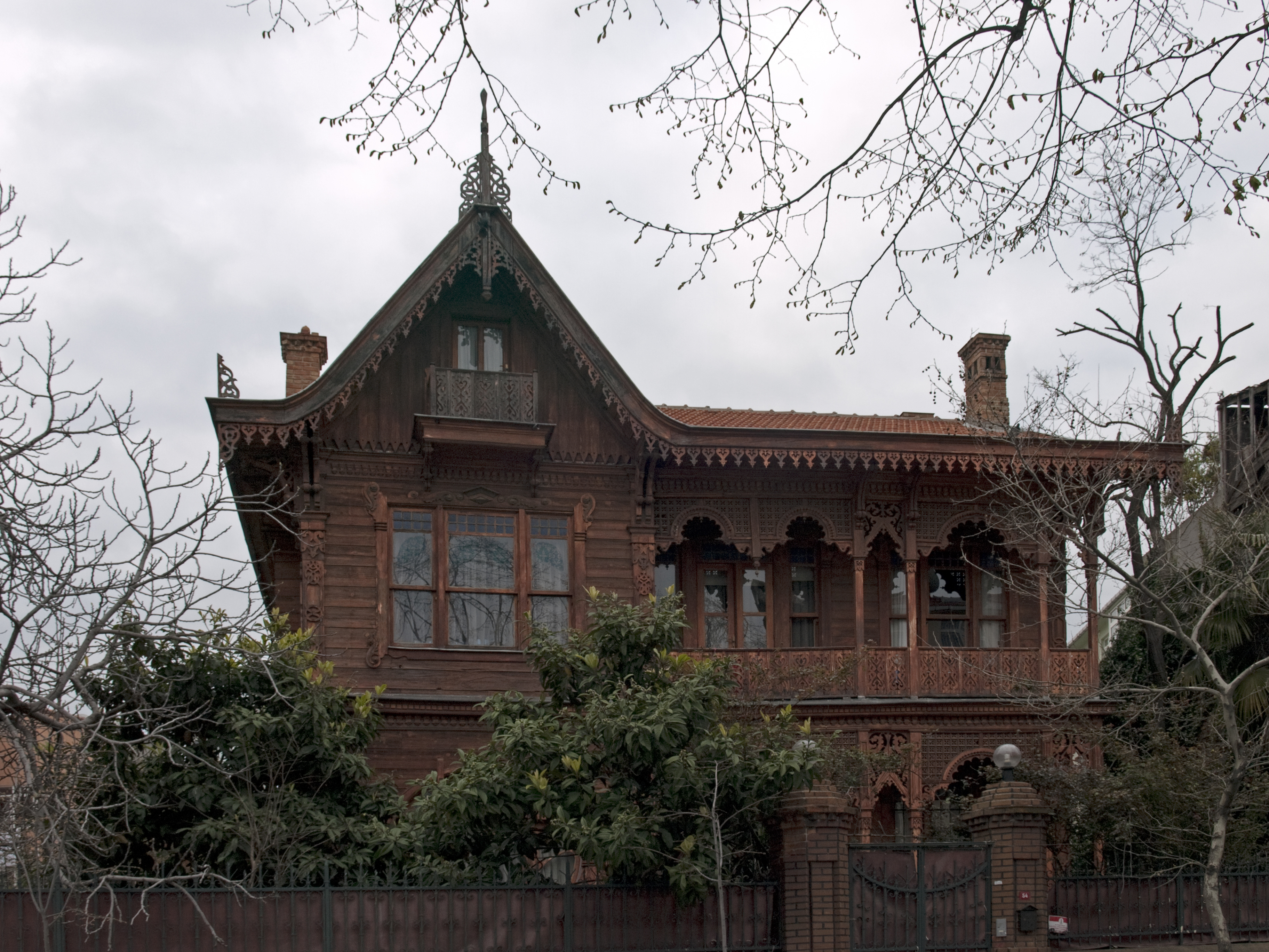 A wooden house on Gazi Cd, Selamsiz, Uskudar